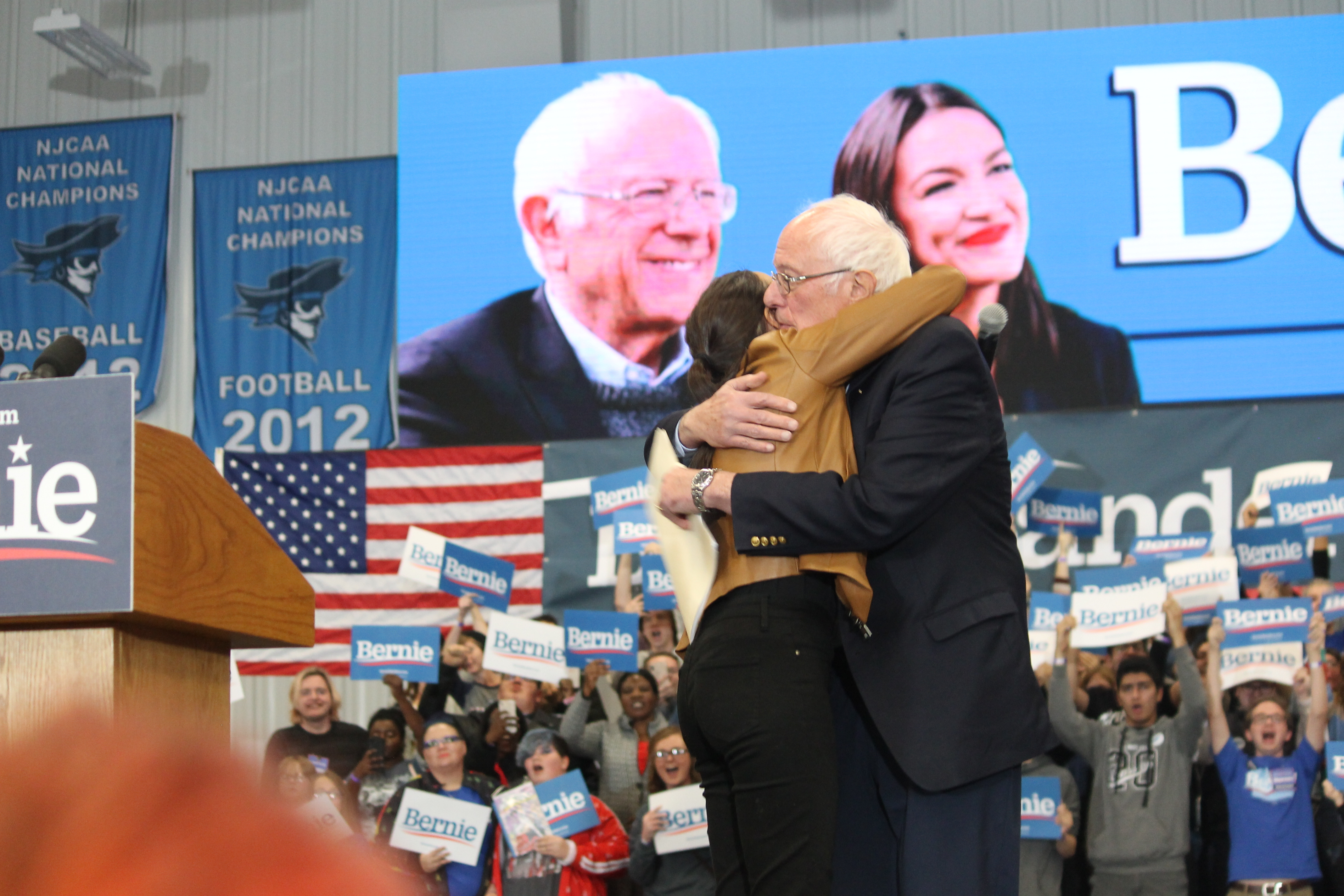 Sen. Bernie Sanders and Rep. Alexandria Ocasio-Cortez at a rally in Council Bluffs, Iowa. J. if used elsewhere.